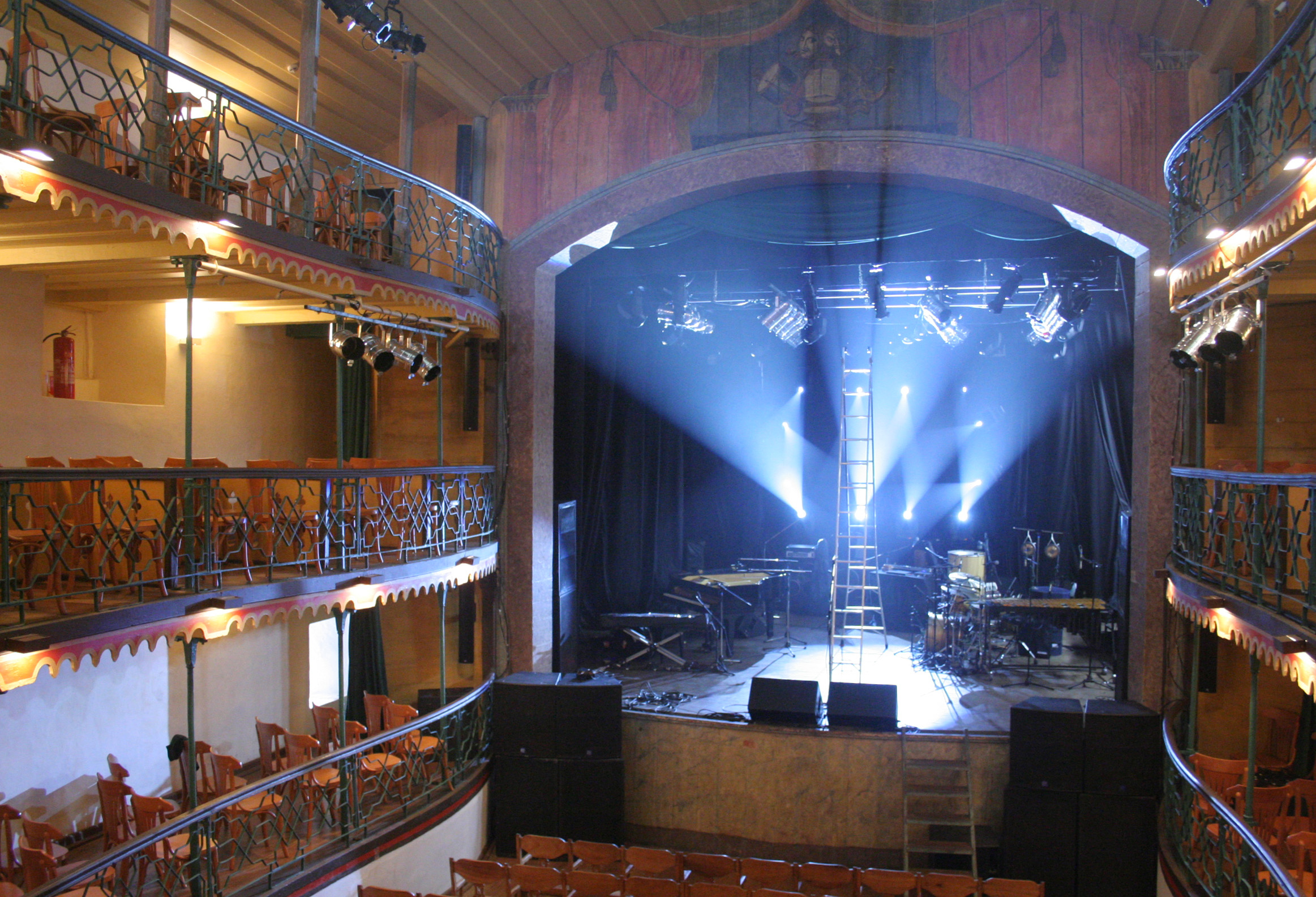 Interior view of Municipal Theatre of Ouro Preto, Brazil.